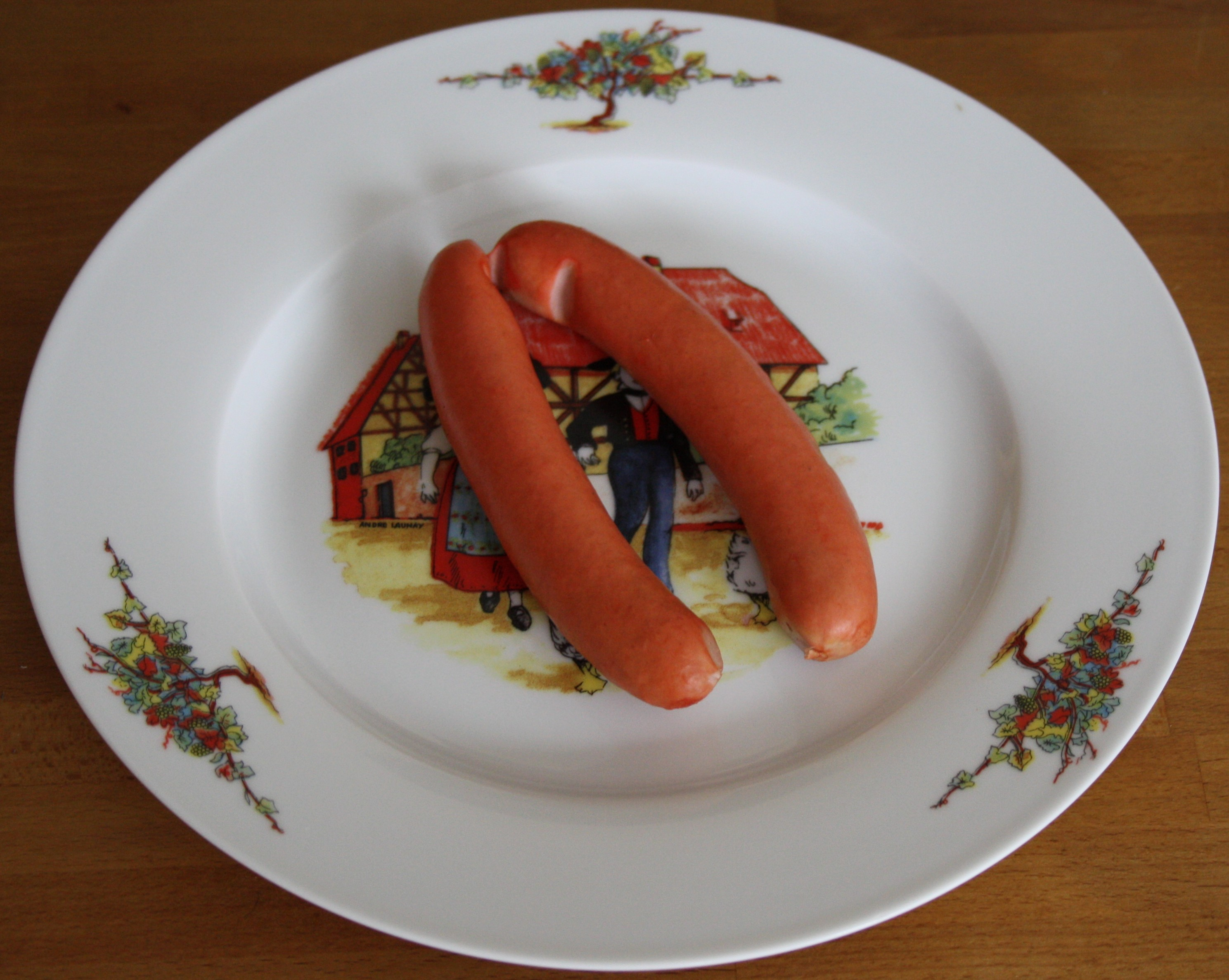 A pair of Strasbourg sausages on a plate